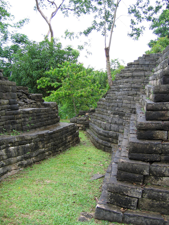 Bases of temple platforms constructed of black slate with drystone (mortarless) construction, main plaza, Lubaantun, Belize